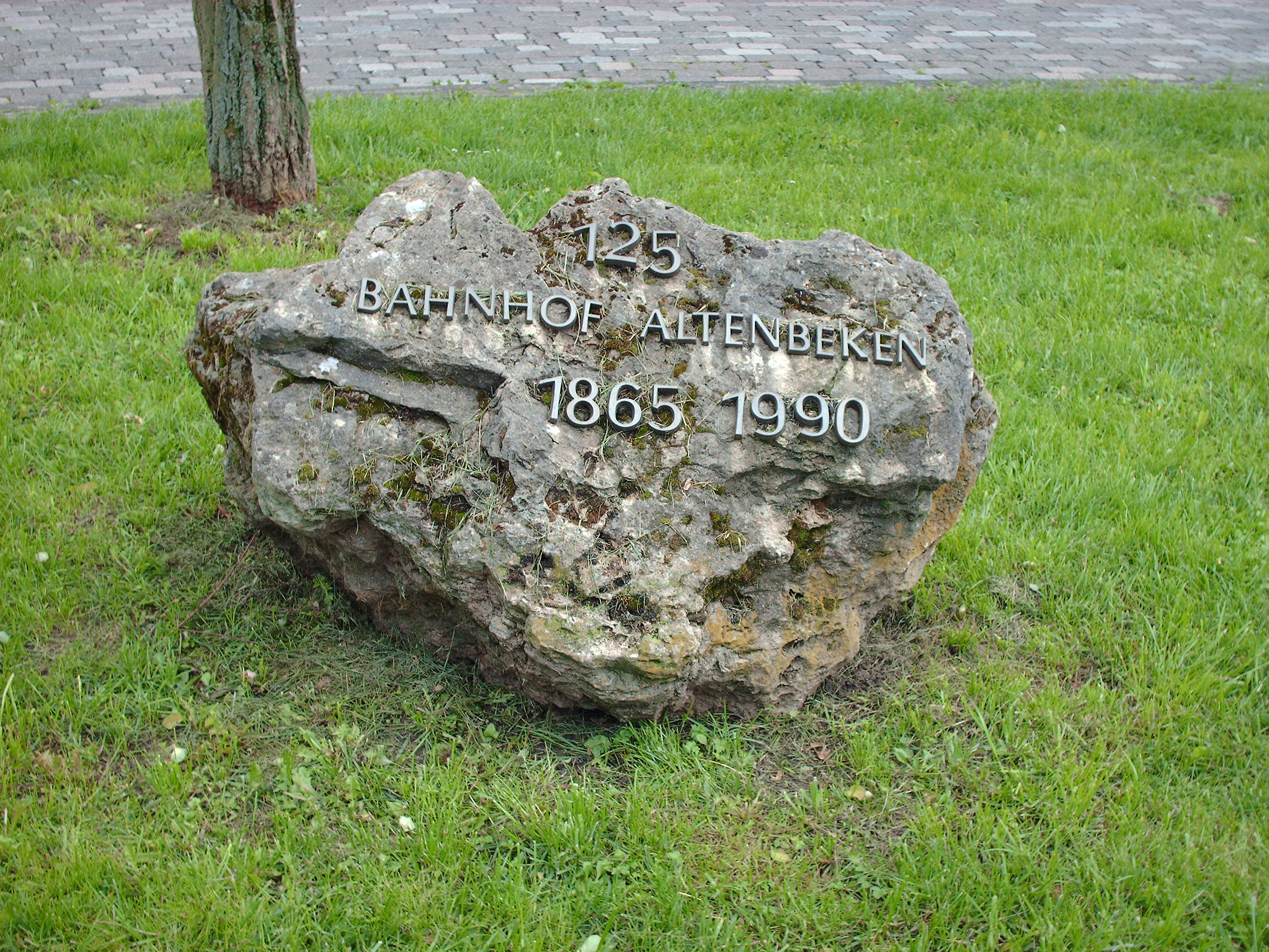 Memorial stone 125 years Altenbeken train station, Altenbeken, Germany check usage